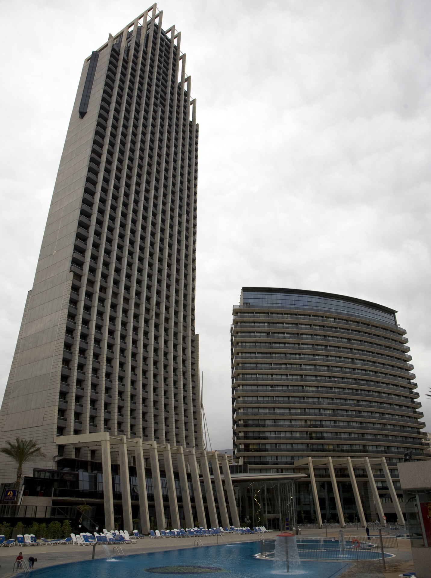 Gran Hotel Bali (Benidorm) - 186m (610ft)